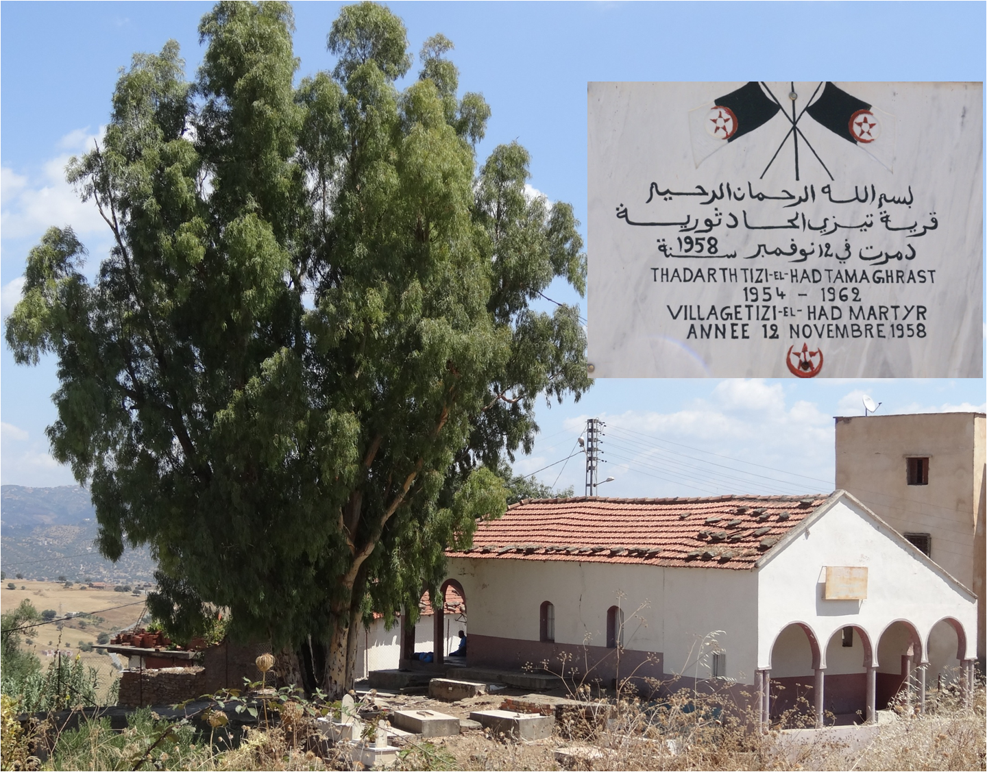 Village Tizi L Had of Bounouh